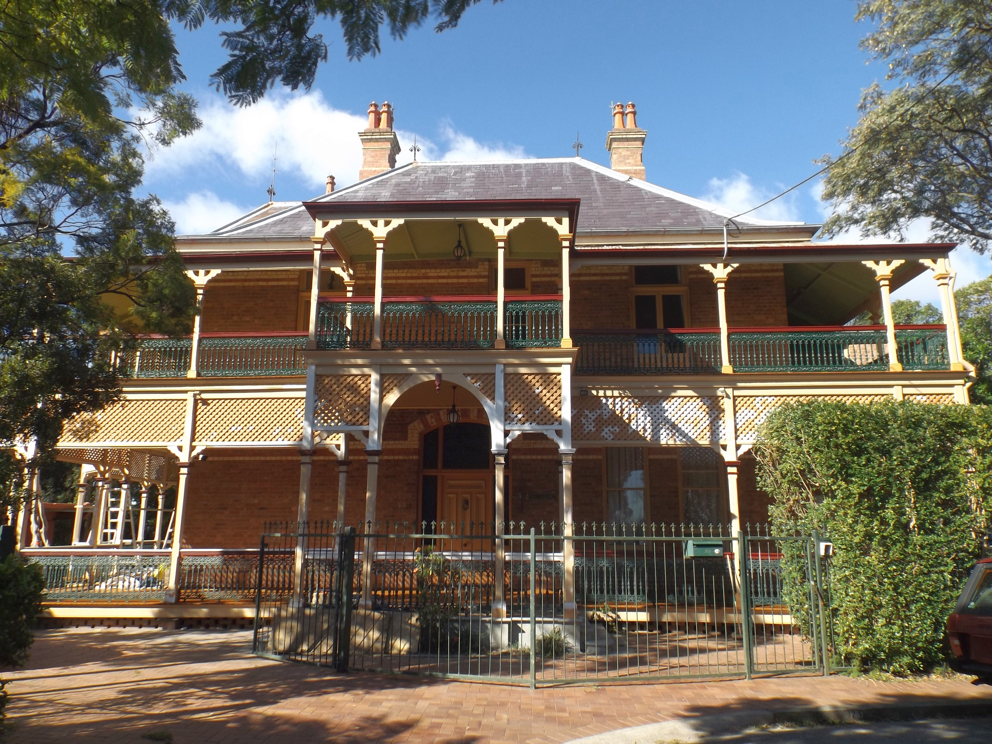 Photo of the Kirkston residence at Windsor, Brisbane, Queensland, Australia.